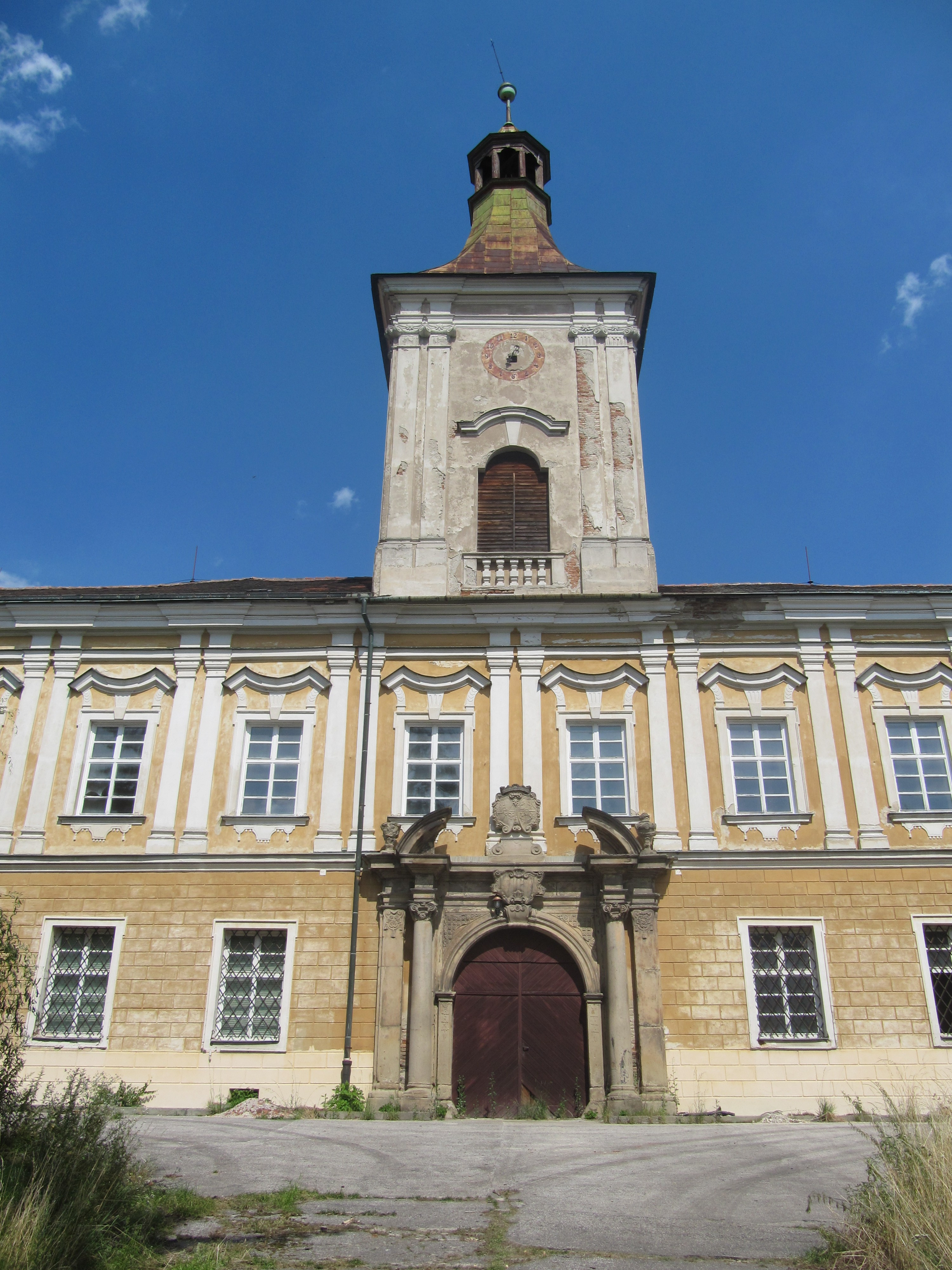 Přestavlky, Přerov District, Czech Republic. Chateau with park and statues.